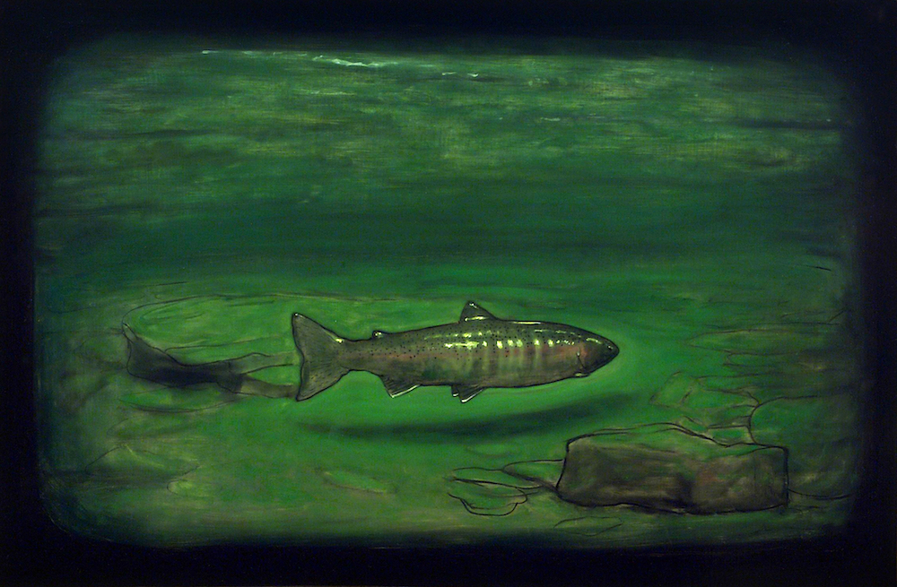 Alberto Rey, "Biological Regionalism: Steelhead", oil on board, 2014. As part of Rey's "Biological Regionalsim" series. Used with permission from the artist.